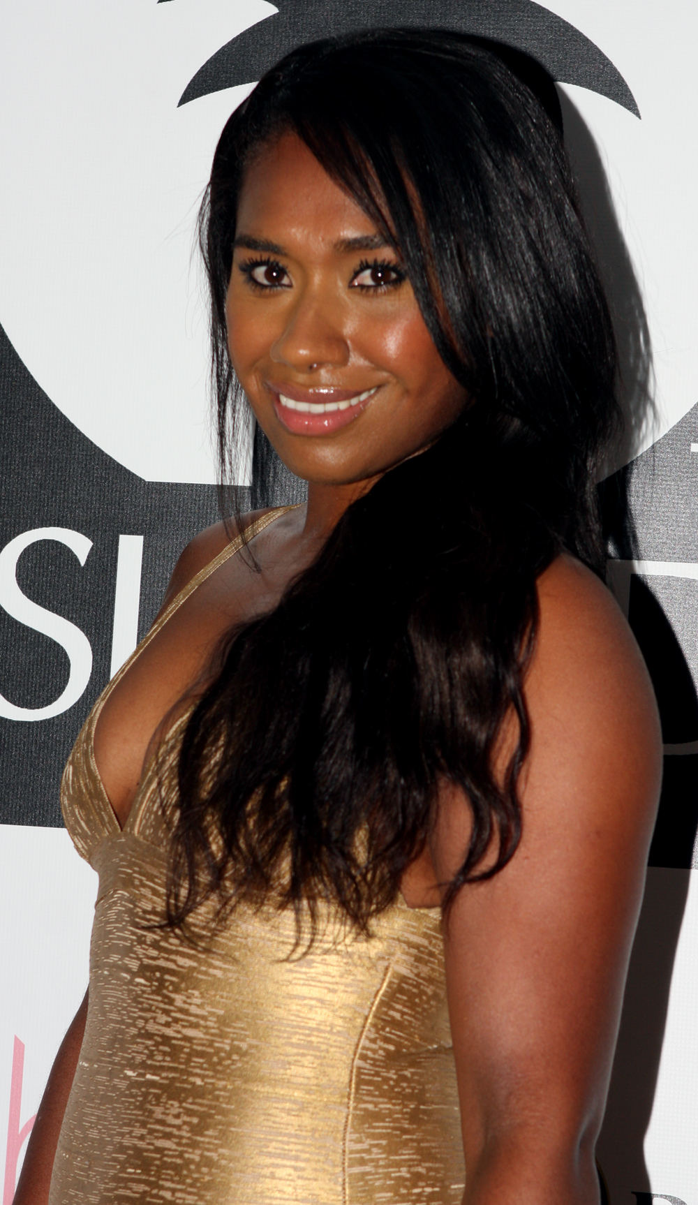 Paulini 2012 at Blue Beat Club in Double Bay, Sydney.